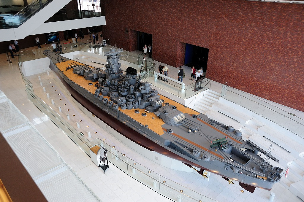 1/10 scale battleship yamato in YAMATO Museum. Kure Hiroshima Japan.